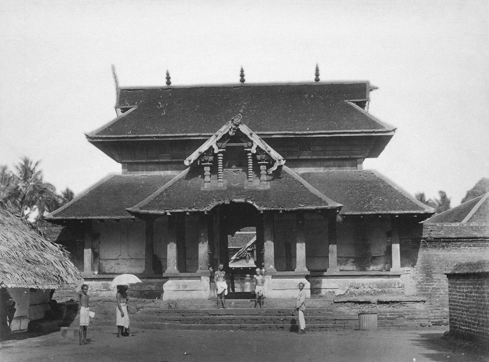 Photograph of the Thali Temple, Malabar District, Calicut Taluk, Kerala, taken by a photographer of the Archaeological Survey of India around 1900-01. Kozhikkode Thali is very ancient Siva temple complex which dates back to the Zamorin rule. The temple was renovated in the 18th century after the distruction by Tippu Sultan and Hyder Ali. The present structure dates back to the rule of Manavikraman. The temple has the deeply-overhanging tiered roofs with terracotta tiling and richly-carved wooden gables characteristic of this area of high rainfall. The two storeyed sanctuary is preceded by a chamber decorated with intricate wood carving. North-east of the complex there is a shrine dedicated to Krishna. In the second volume of his work 'Malabar' of 1887, William Logan wrote about this temple, "The Talli temple is in kasaba amsam in a locality of the same name in the heart of the Calicut town close to the Zamorin's old palace. The temple is a very ancient one... It is dedicated principally to Siva, though Vishnu, Bhagavati, Ganapati and Ayyappan are also worshipped. The temple contains sculptures of a high order as well as paintings intended to perpetuate Hindu religious legends. Attached to the temple is a tank ...used for bathing purposes.". This image falls into the public domain as it was taken in India prior to 1 January 1951, and was not published in India after that date. It is in public domain in the United States as well as it was taken prior to 1 January 1951.